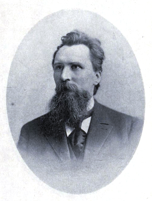 Henry Nehrling (May 9, 1853 – November 22, 1929)